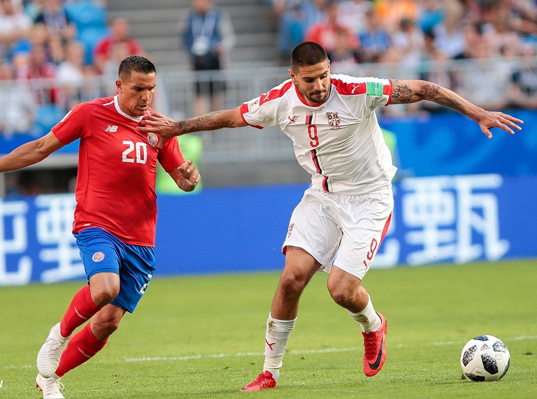 Aleksandar Mitrović, David Guzmán